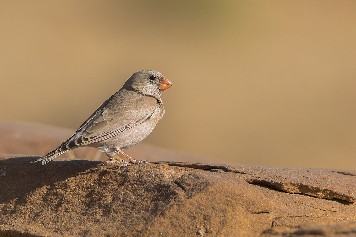 at Desert national Park in Jaisalmer district, Rajasthan